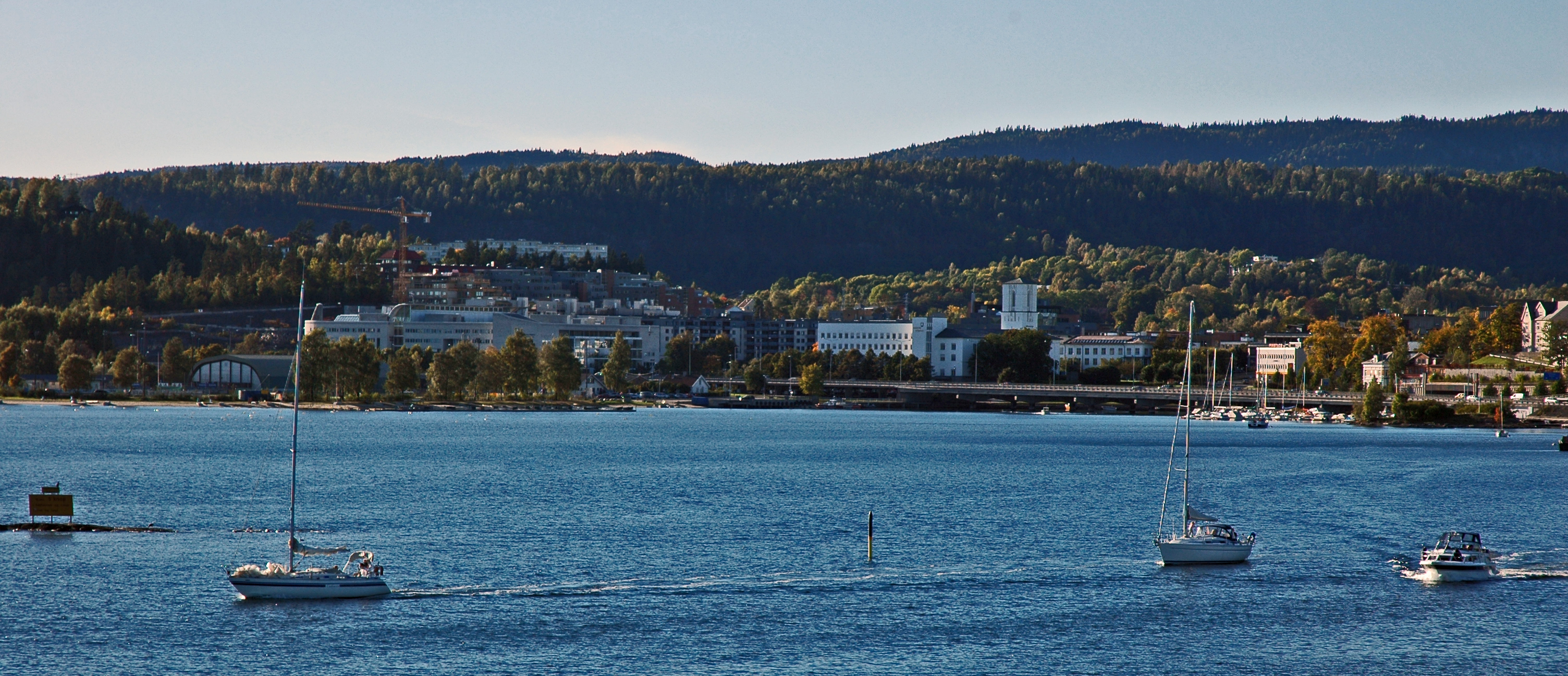 Sandvika, in the municipality of Bærum, in Norway. Photograph from Høvikodden.